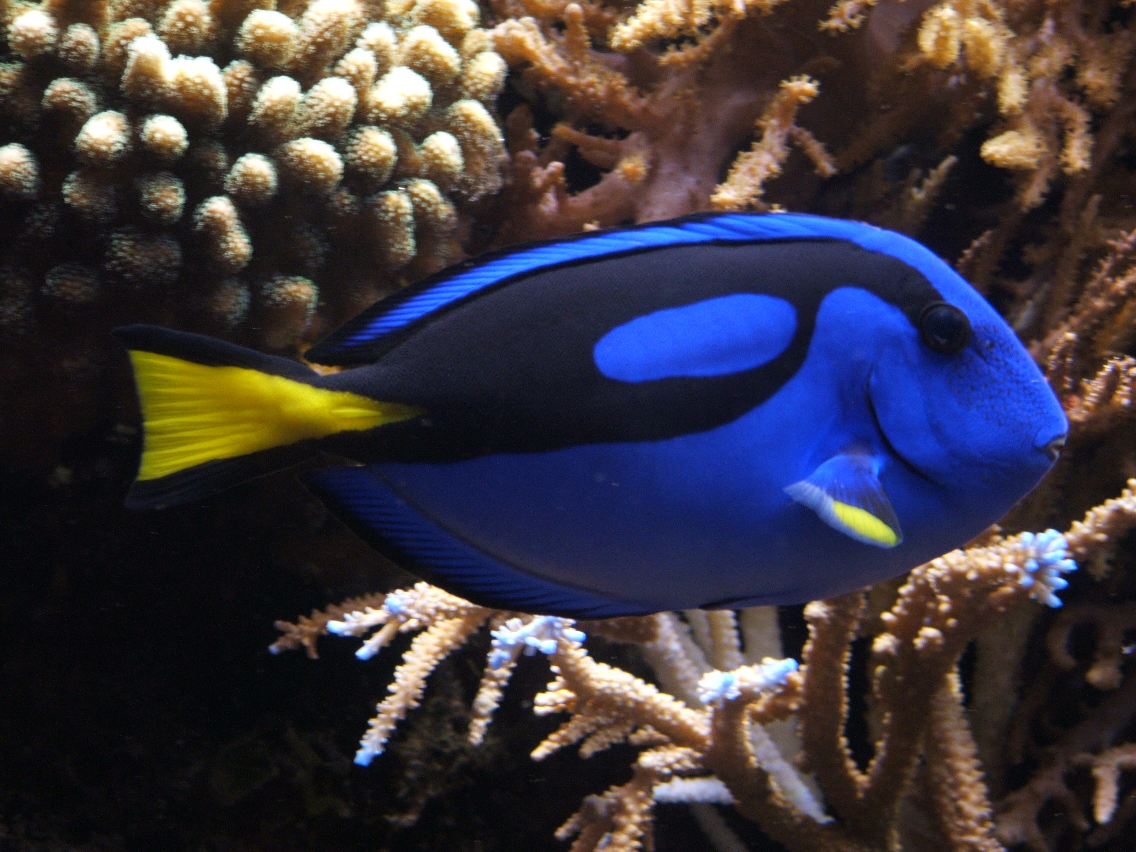 Blue tang (Paracanthurus hepatus), Monterey Bay Aquarium